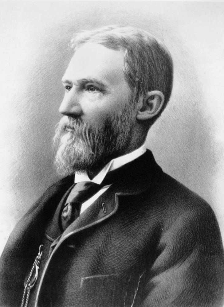 Sir Samuel Griffith (1845 - 1920), 9th Premier of Queensland (1883 - 1888) and 1st Chief Justice of Australia (1903 - 1919)